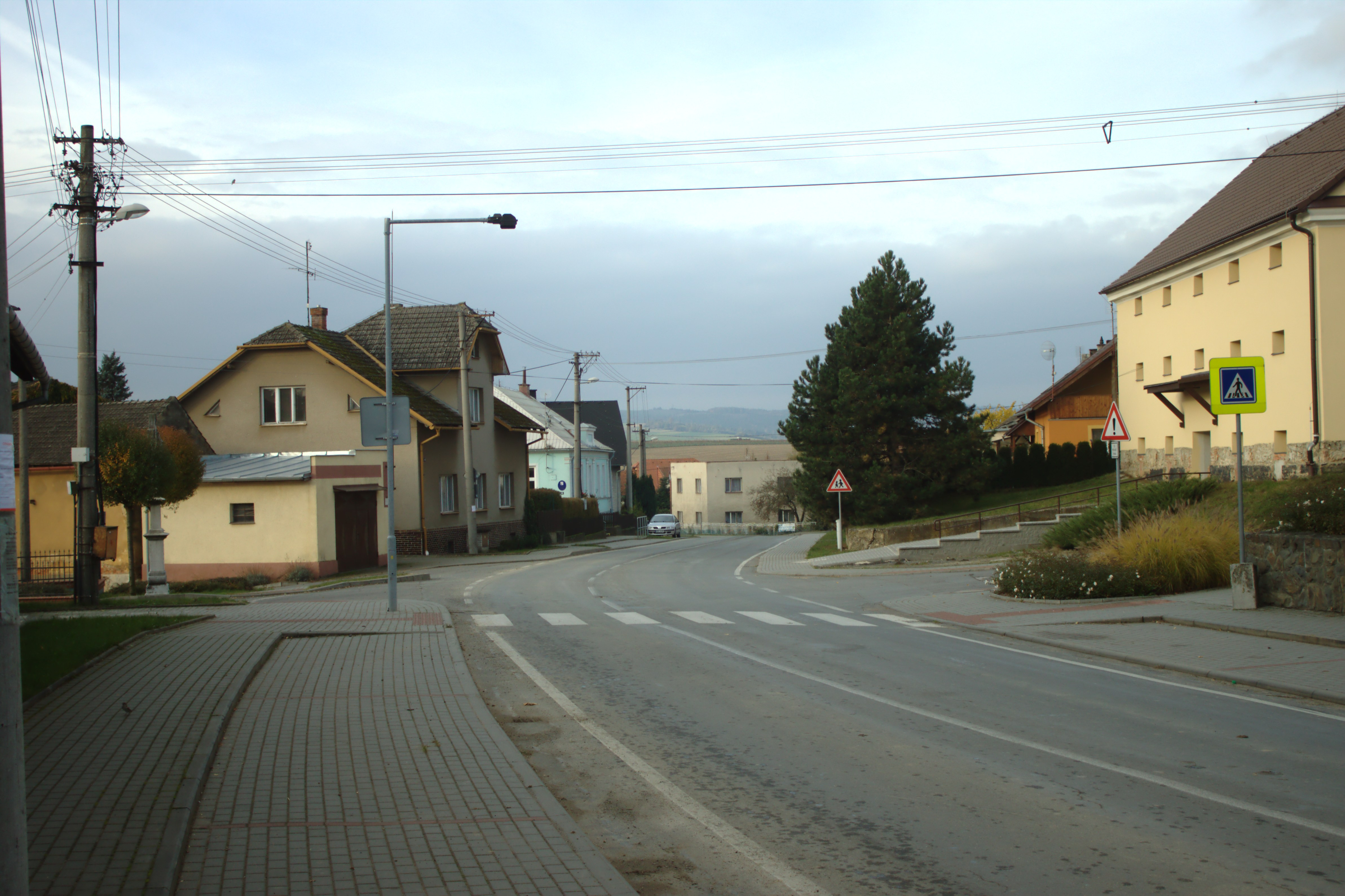 A pedestrian crossing in the village of Uhlířov, Moravian-Silesian Region, CZ